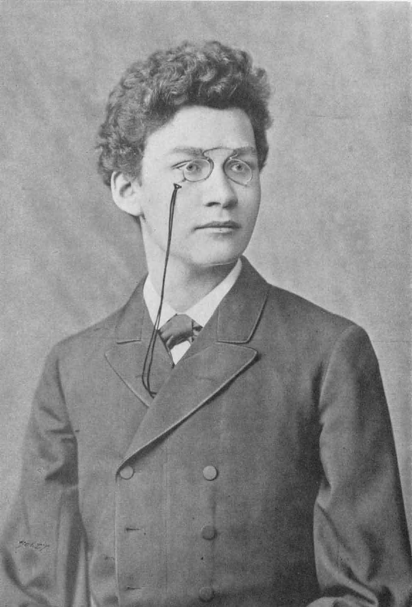 Hermann Minkowski when he won the prize of the Paris Academy